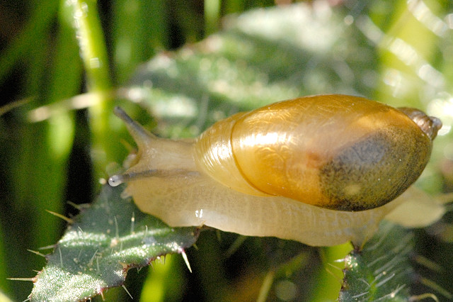 Succinea putris from Commanster, Belgian High Ardennes .